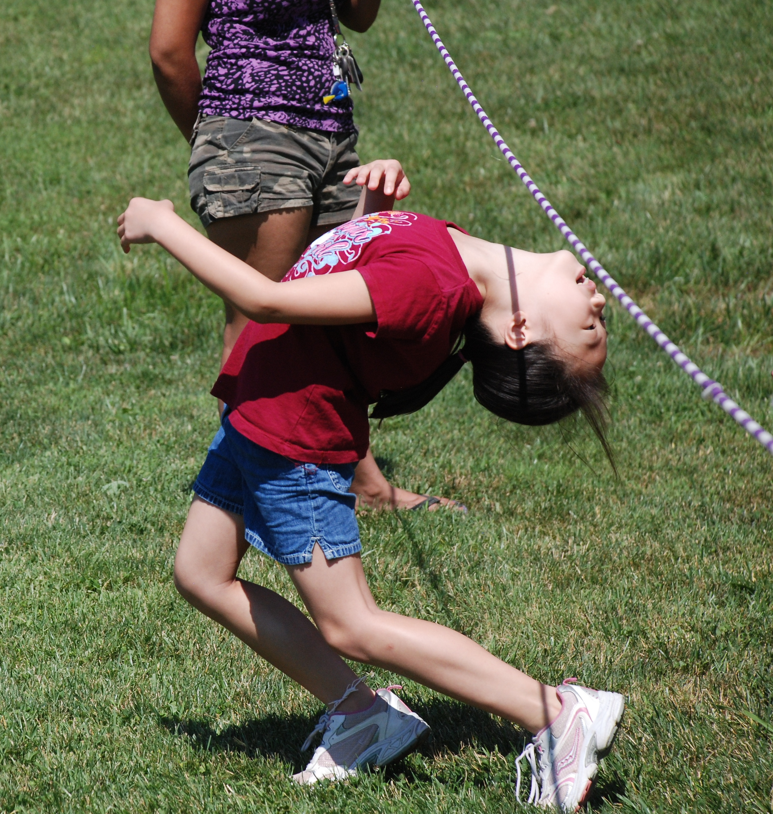 Day of sports and games at elementary school in Fairfax County, Virginia.